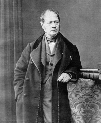 Hippolyte Bayard (1801–1887): Self-portrait 1863